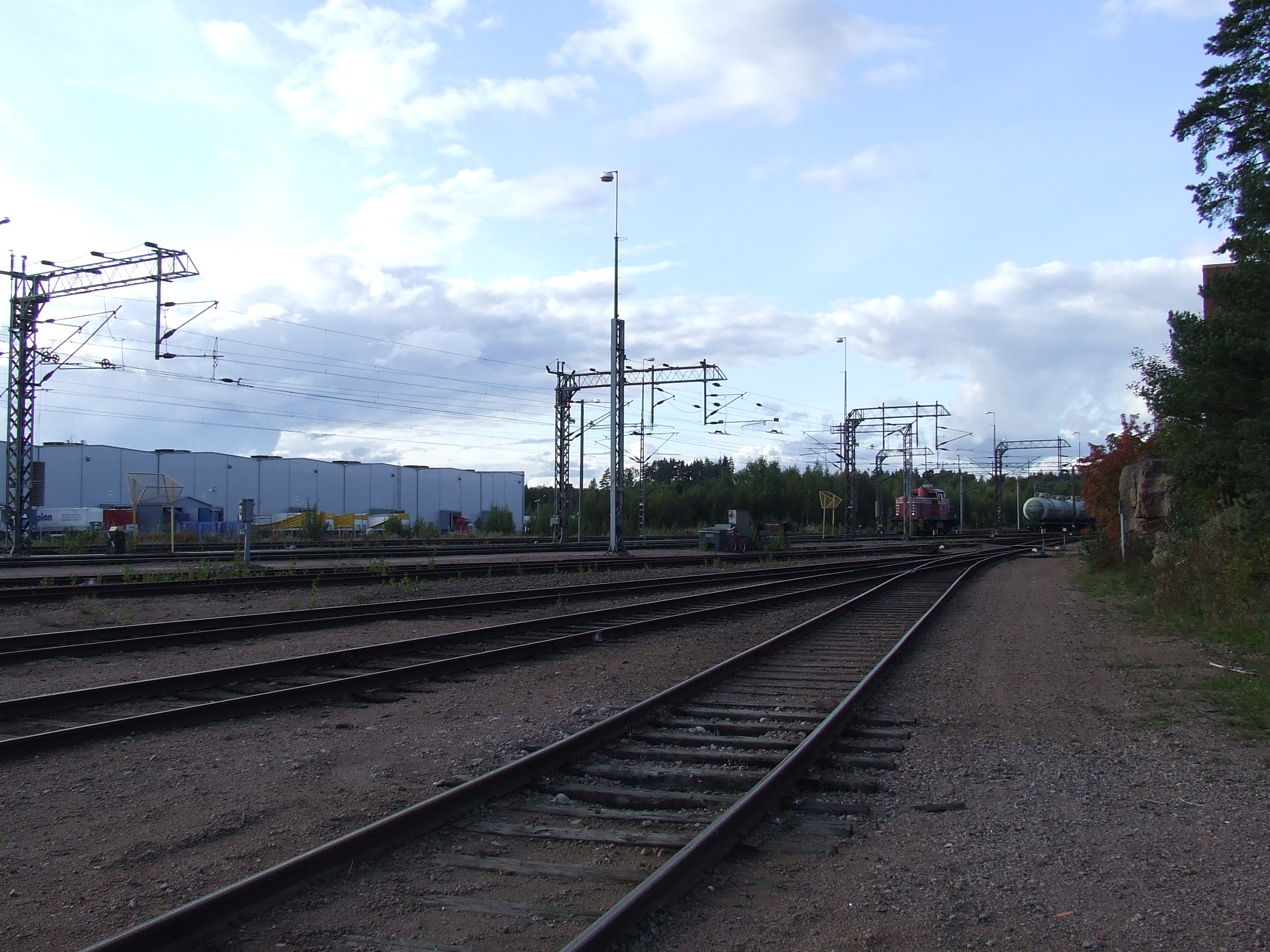 Rail yard in Hamina, Finland.